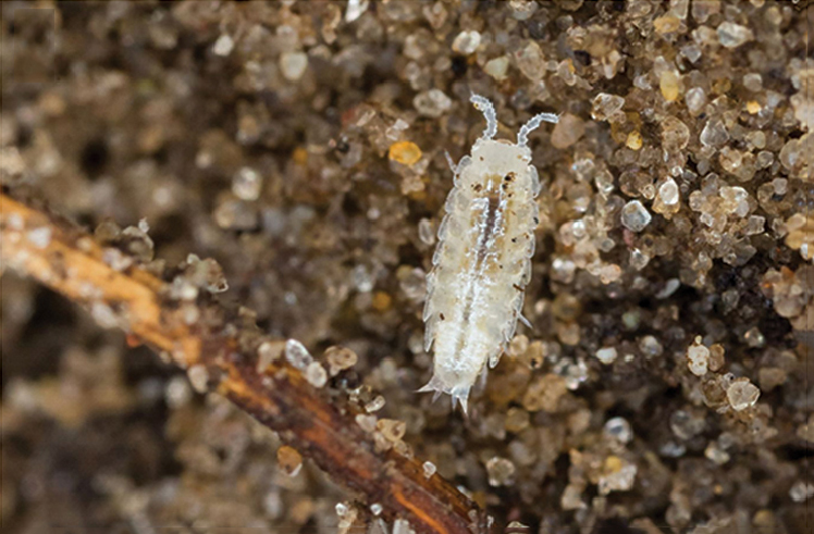 Metatrichoniscoides leydigii; photo: Gert Arijs.